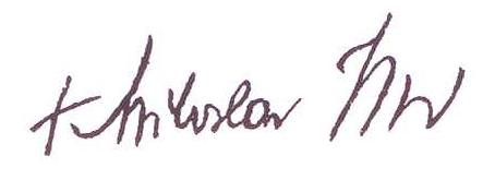 Signature of Cardinal Miloslav Vlk.